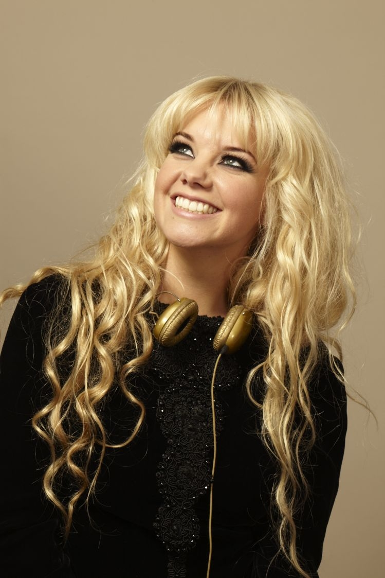 Goldierocks (Samantha Louise Hall) is a British DJ, presenter, journalist and producer.